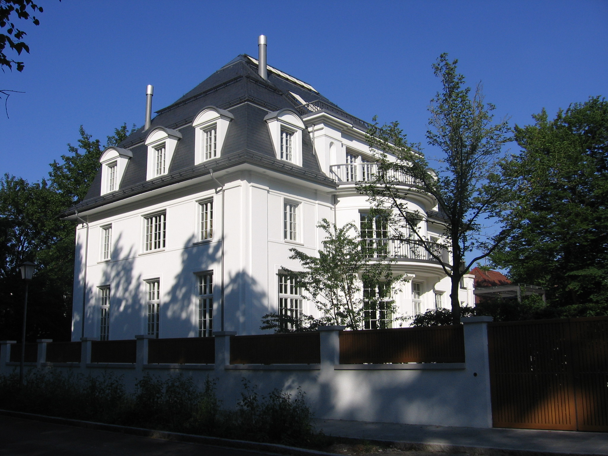 reconstruction of the Thomas Mann mansion, Munich Poschingerstrasse